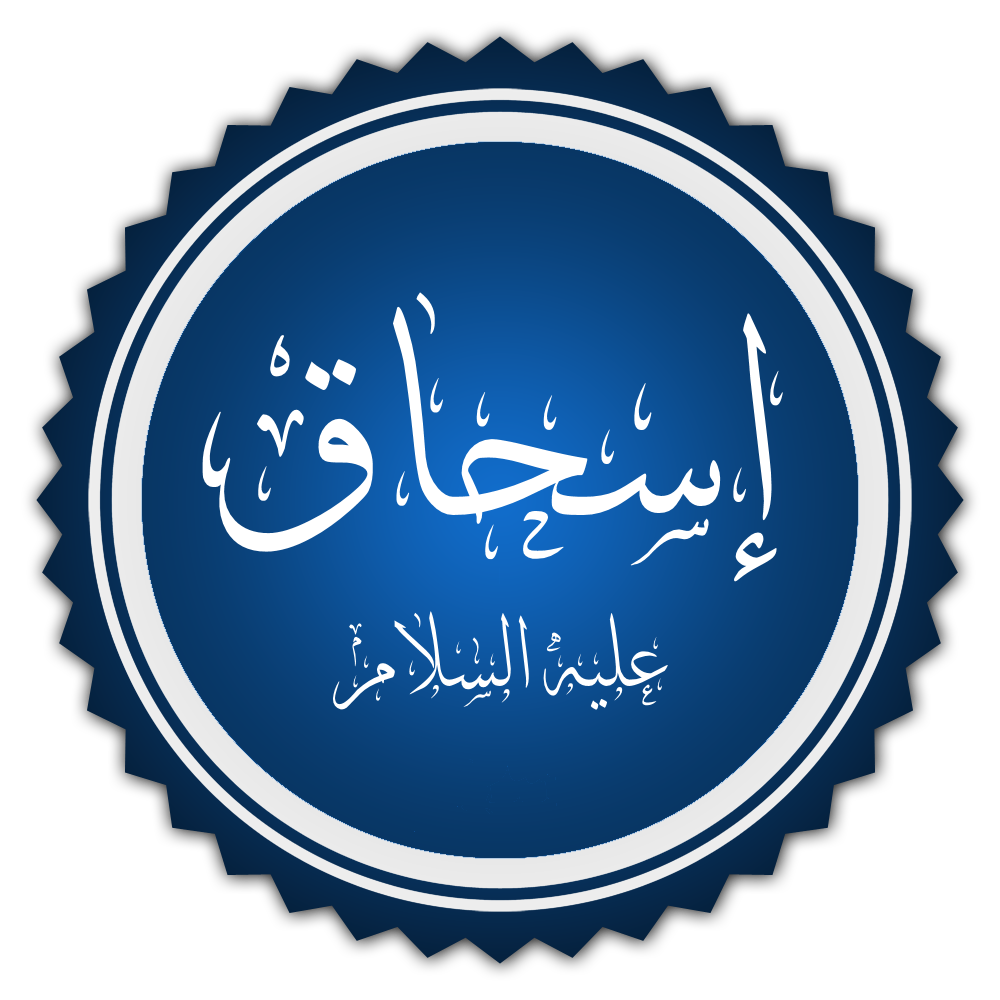 Isaac